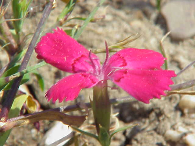 Species: Dianthus deltoides Family: Caryophyllaceae Image No. 1